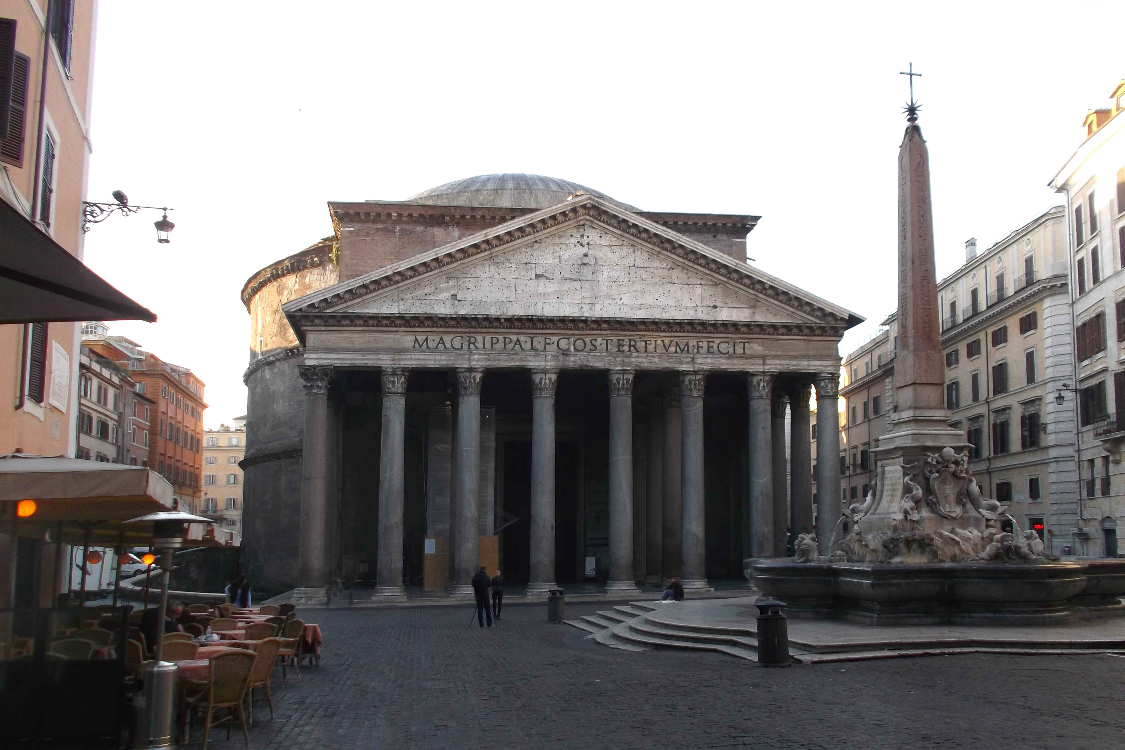 The Pantheon and the Macuteo obelisk in Piazza della Rotonda, Rome, Italy